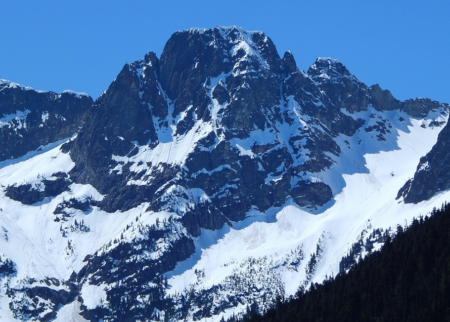 Repulse Peak seen from the North Cascades Highway at Swamp Creek